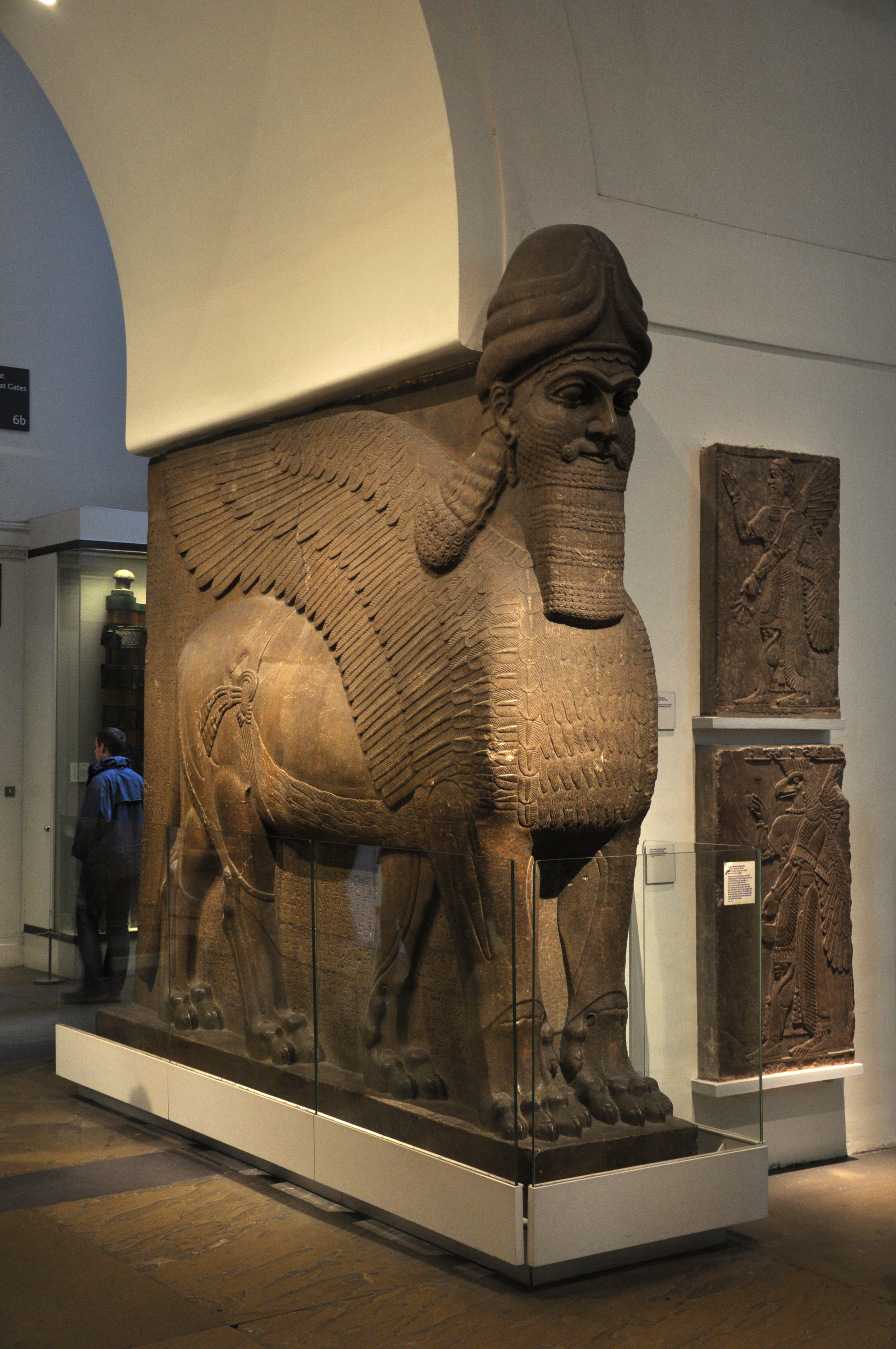 Winged Lion from the North-West Palace of Ashurnasirpal II (Nimrud 883-859 BC). British Museum.